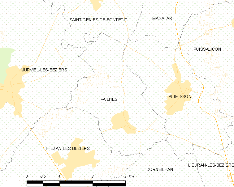 Map commune FR insee code 34191.png - Pailhès (Hérault)